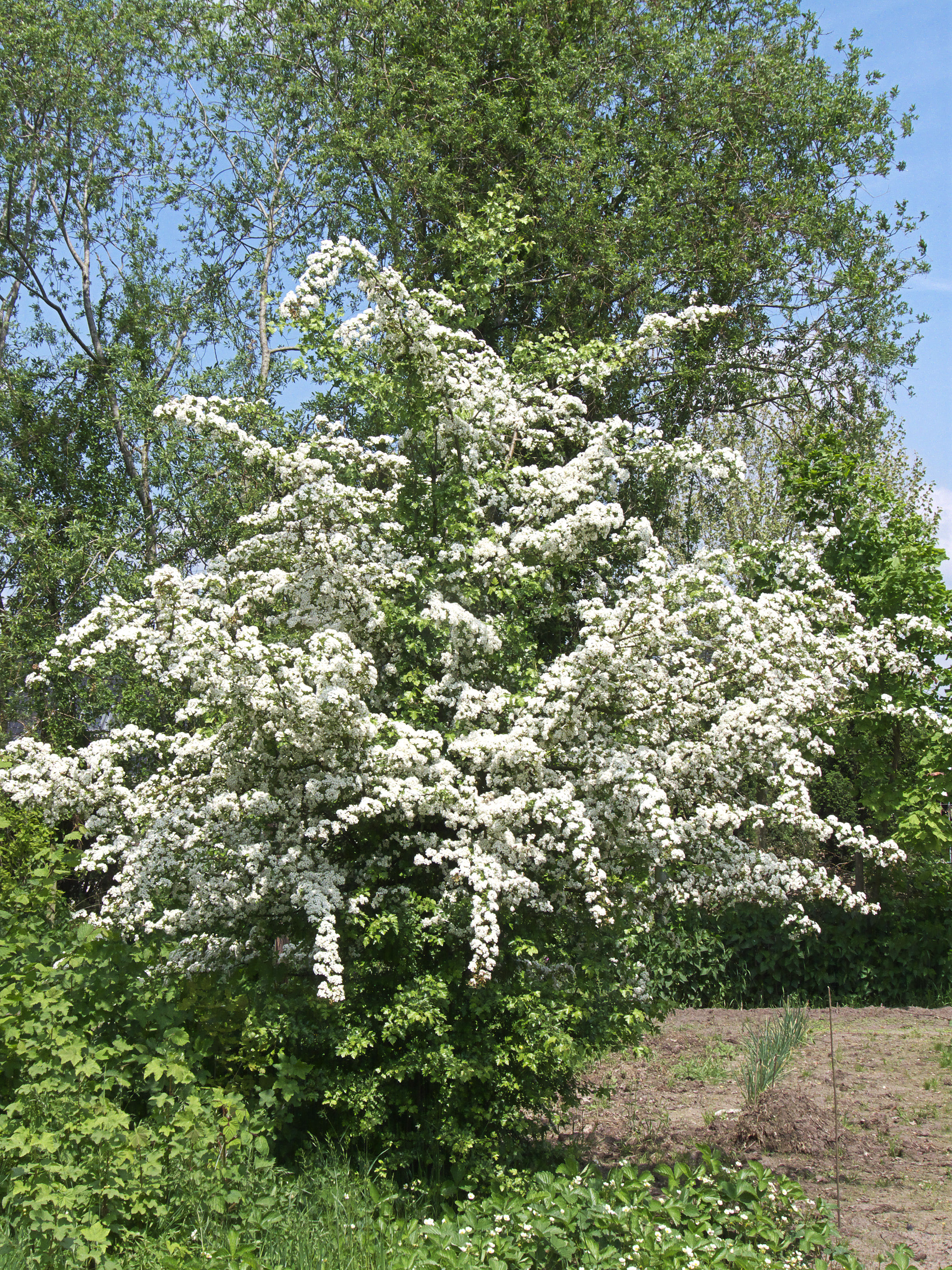 Crataegus monogyna